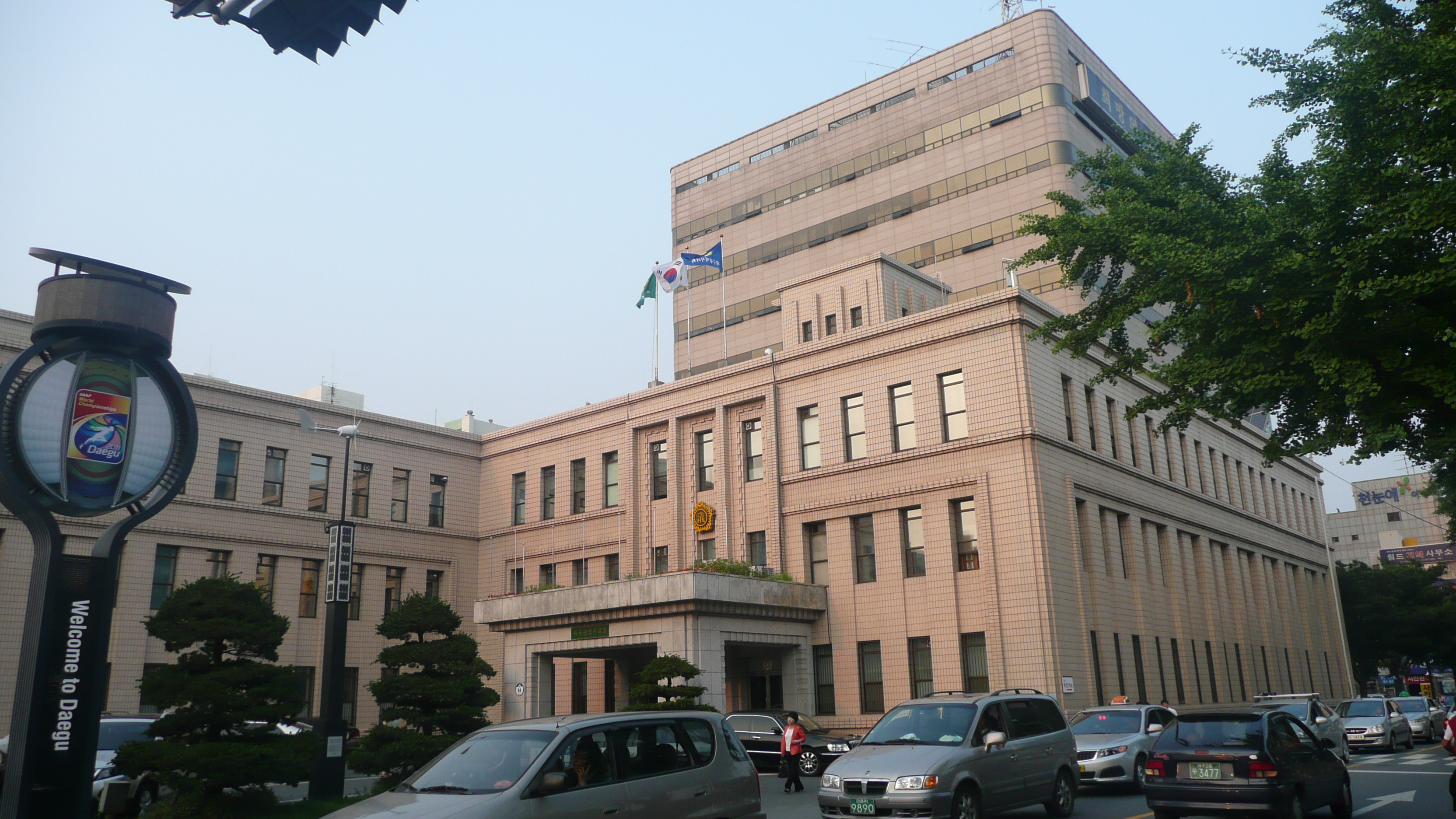 City Hall of Daegu